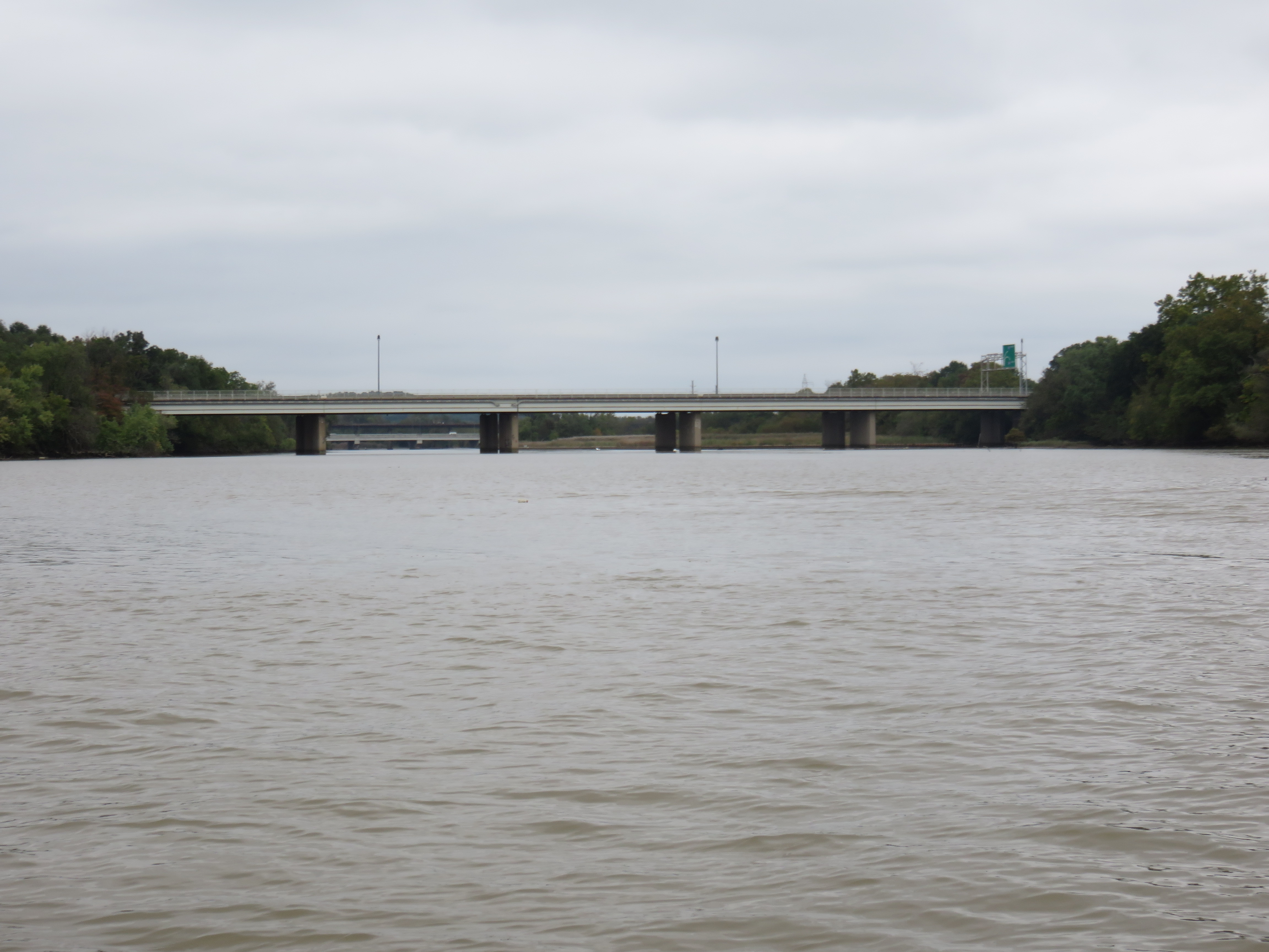 Whitney Young Memorial Bridge over the Anacostia River in Washington, D.C. in 2018. The Benning Bridge is visible behind it.